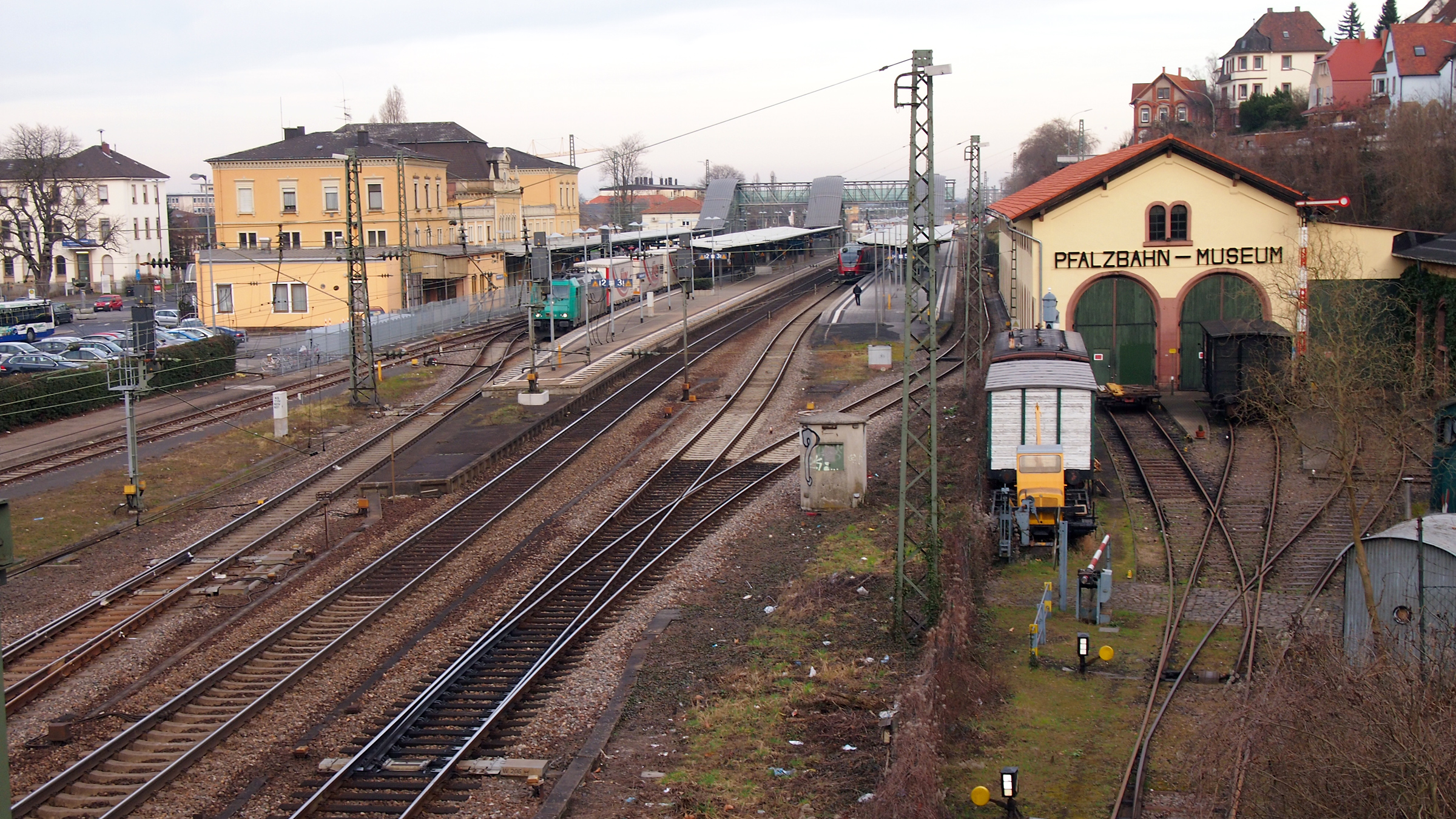 Neustadt an der Weinstraße, Hauptbahnhof, railway station